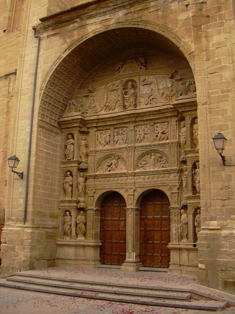 Facade of Santo Tomas church in Haro (La Rioja, Spain).